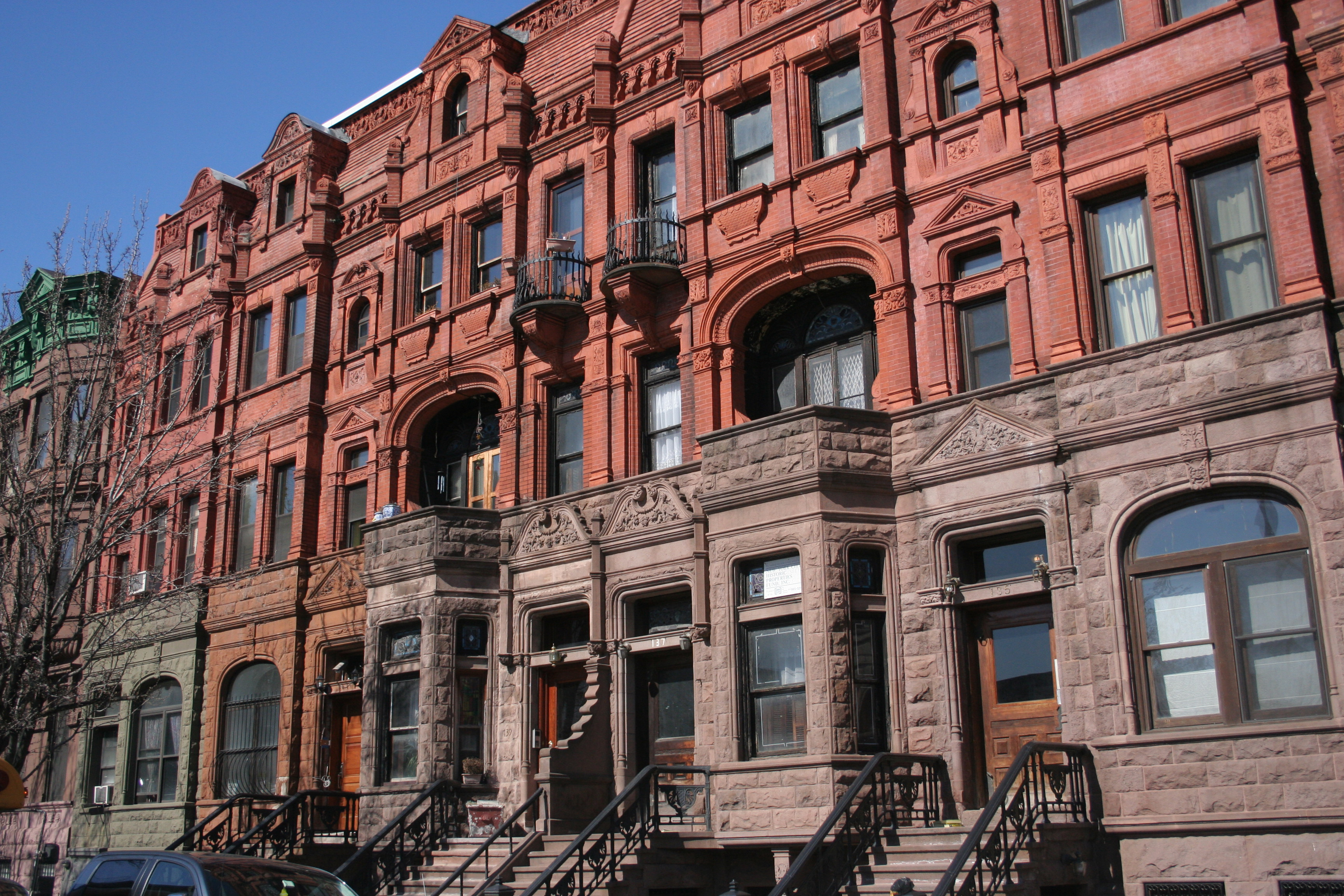 Harlem, New York